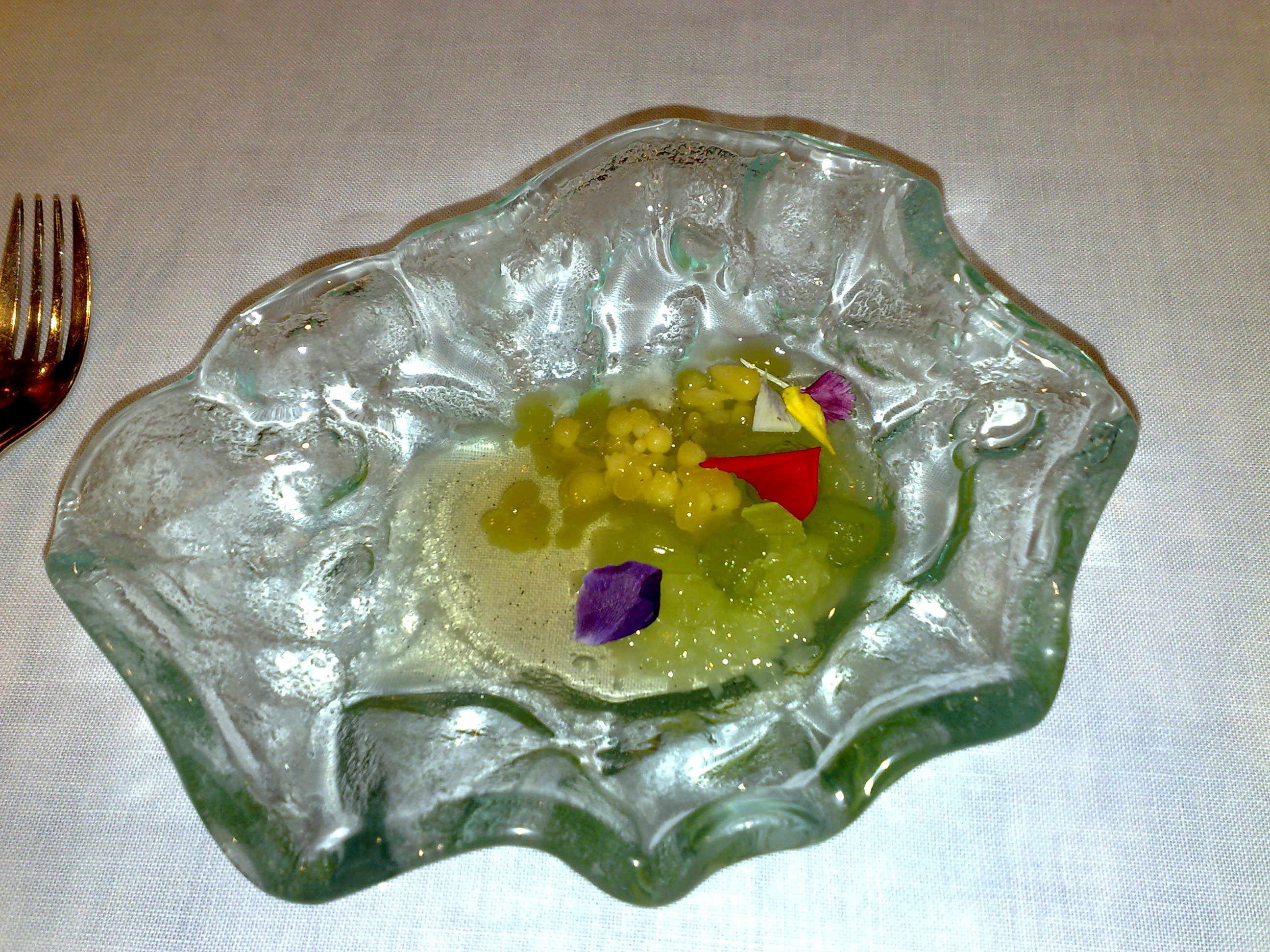 Served wth samples of the perfume. At El Celler de Can Roca, Spain.